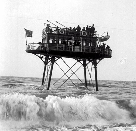 Photo of Daddy Long Legs, vehicle of unusual seagoing railway that existed in Brighton, UK, between 1896 and 1901